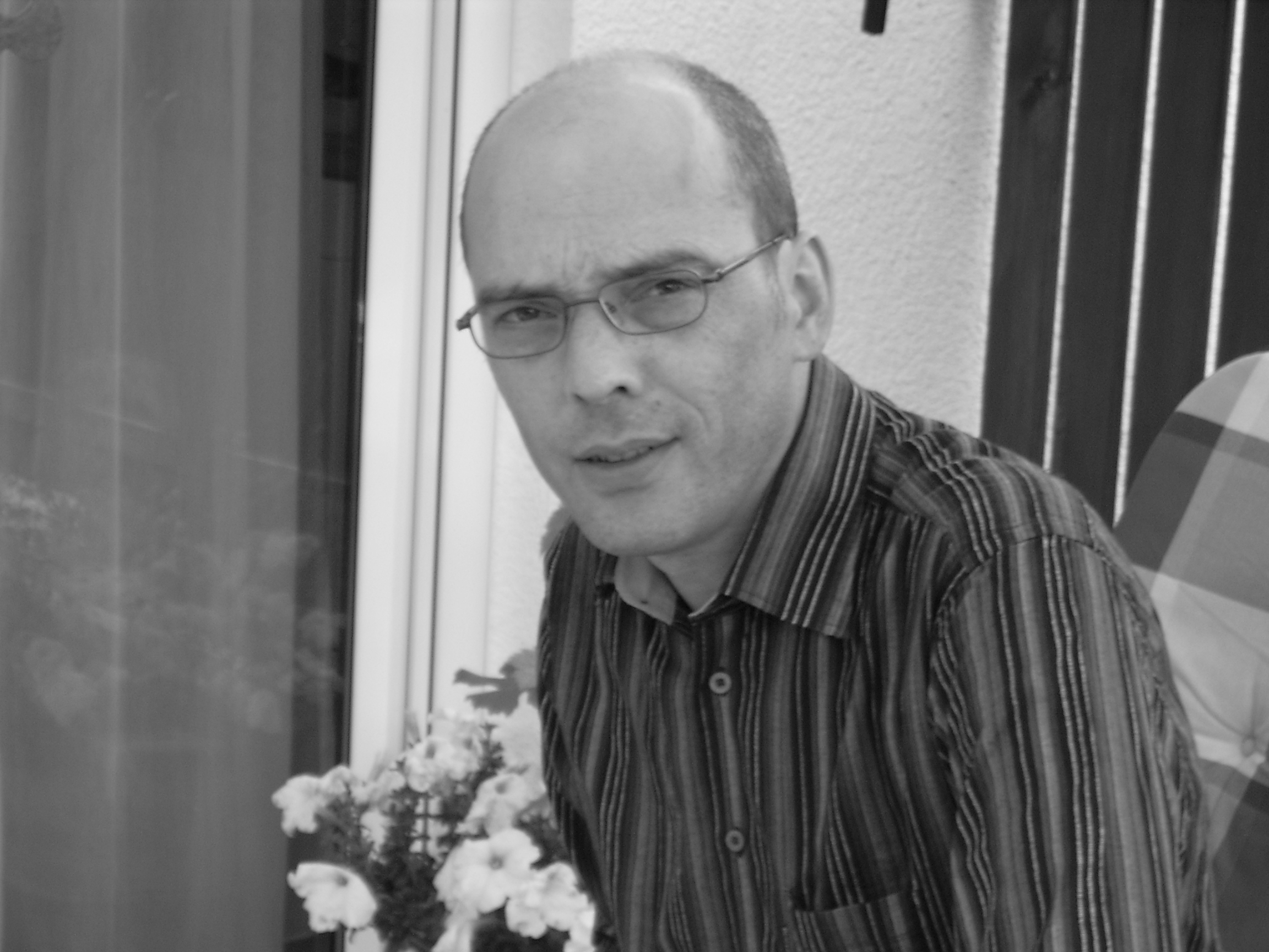 The photo shows the German chess composer Wieland Bruch. It was taken by his wife. They agreed to upload it under the license CC-BY-SA 3.0, Wieland Bruch says.